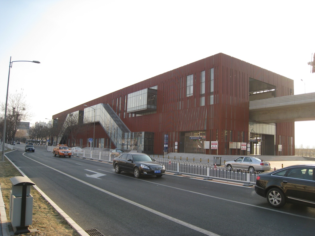 Rongjingdongjie station of Yizhuang Line, Beijing Subway.